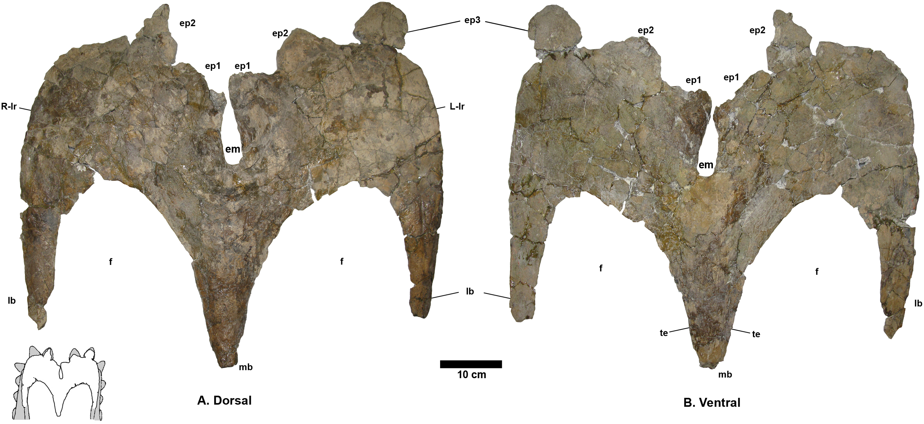 Terminocavus sealeyi holotype NMMNH P-27468 parietal. Dorsal (A) and ventral (B) views. Paired ep1 are deflected dorsally. em, median embayment of the posterior bar; ep, epiparietal loci numbered by hypothesized position (no epiossifications are fused to this specimen); f, parietal fenestra; lb, lateral bar; L-lr/R-lr, Left/Right lateral rami of the posterior bar; mb, median bar; te, tapering lateral edges of the median bar. Scalebar = 10 cm. Reconstruction adapted from Lehman (1998).